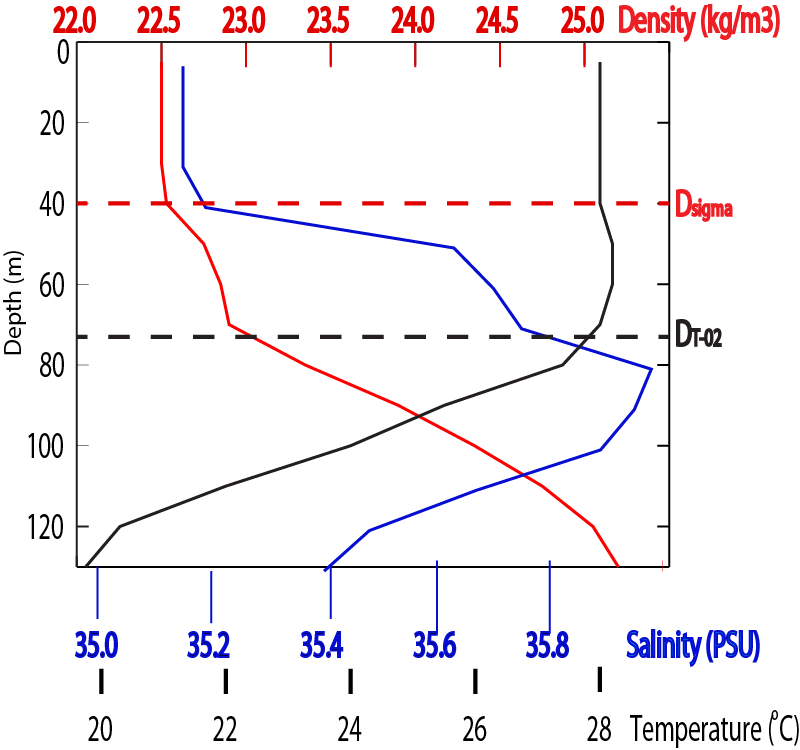 Digital version of Argo plot in Arabian Sea